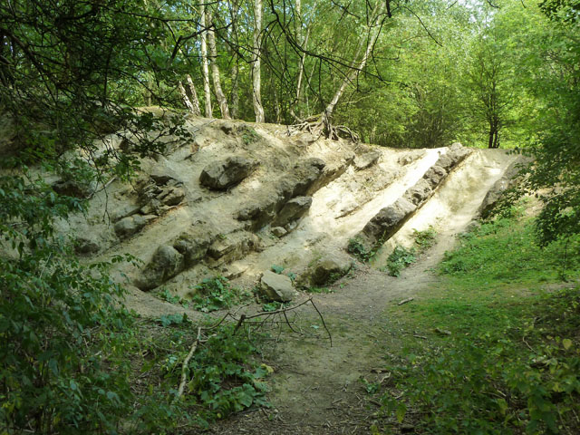 Rag and hassock outcrop: Alternating soft and hard beds in the Lower Greensand. The rag is the hard stone. In Dryhill local nature reserve, which is also an SSSI because of these geological exposures.